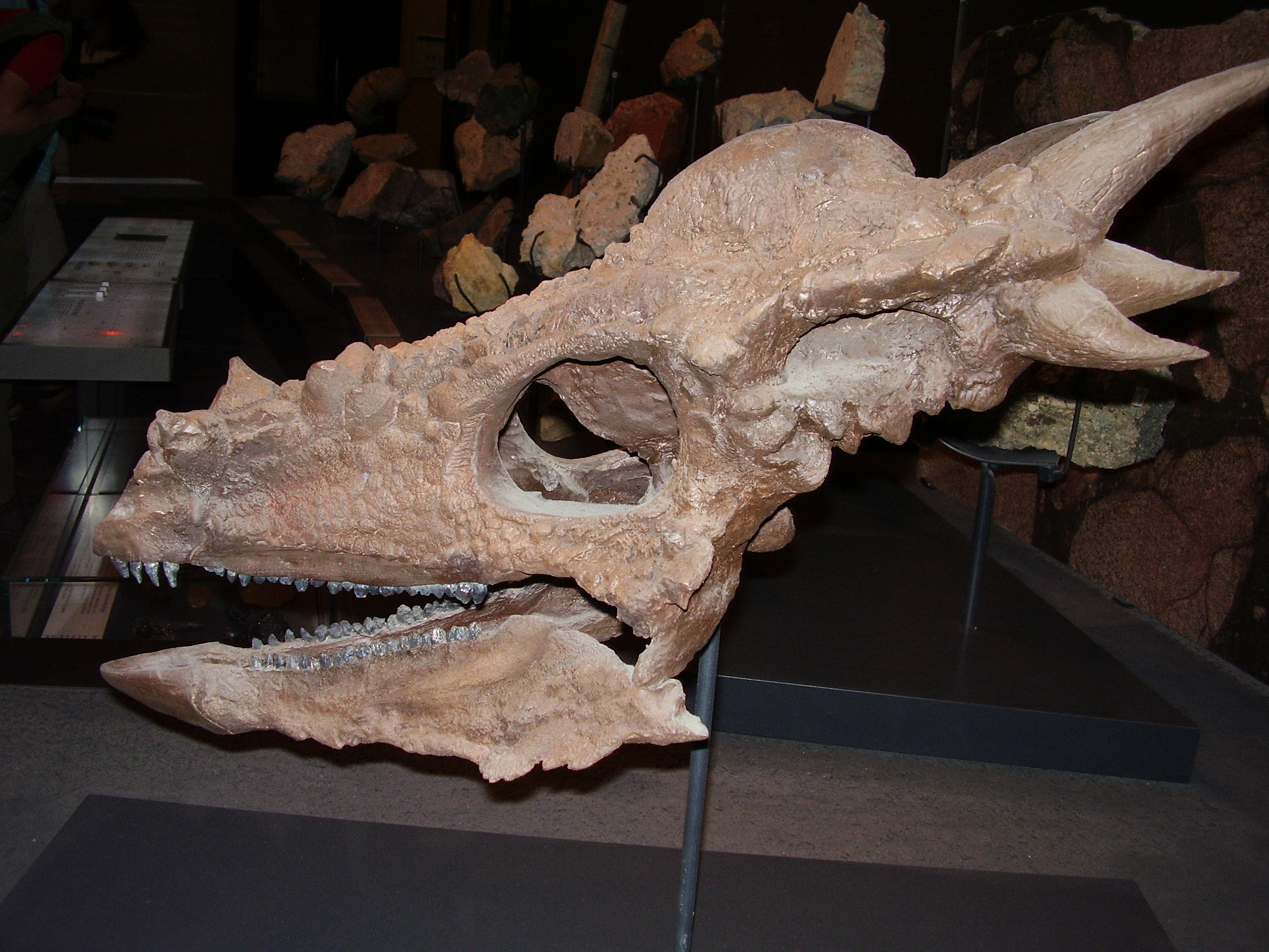 Skull of the pachycephalosaurid dinosaur Stygimoloch